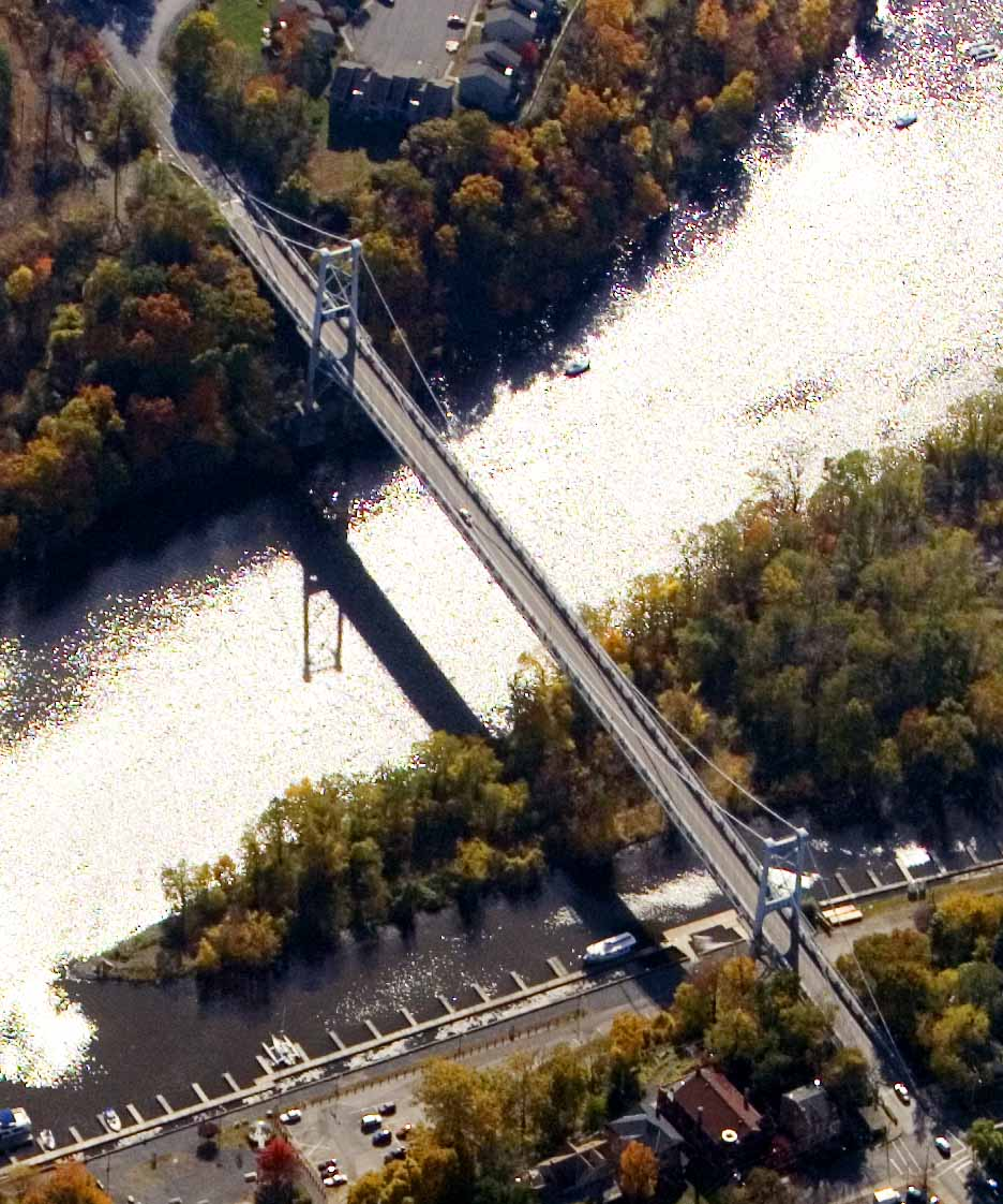 The wurts street bridge photographed by Paul Joffe